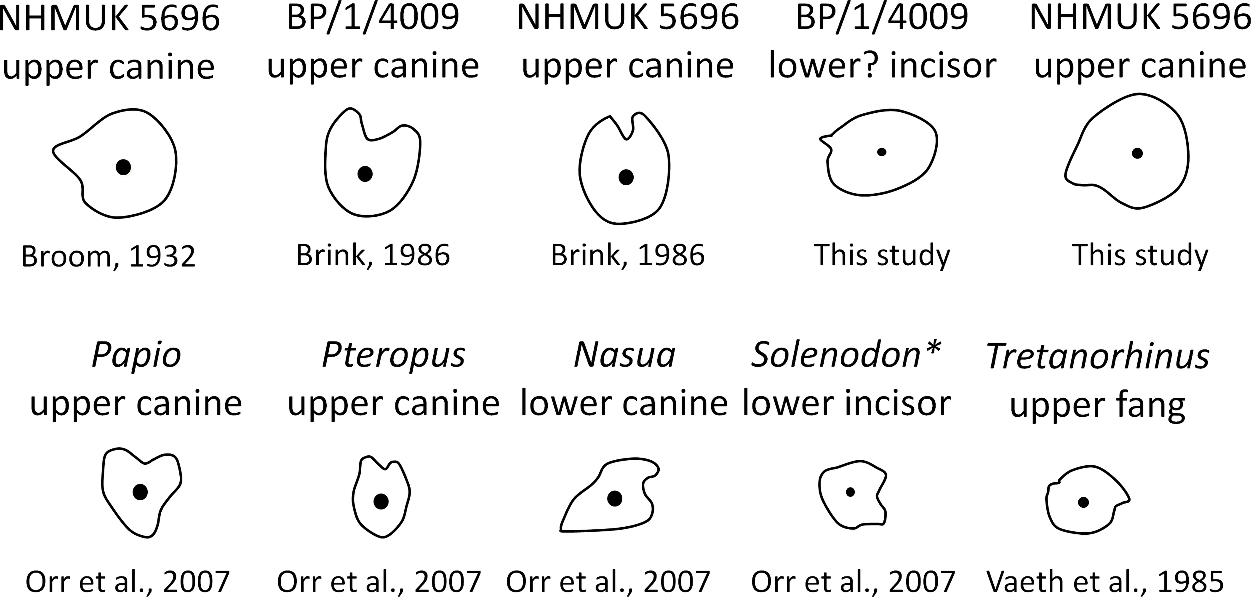 Fig 10. Cross sections through the teeth of various mammals redrawn from literature and compared to Euchambersia. Mesial is on the top, labial is on the right. * indicates venomous species.